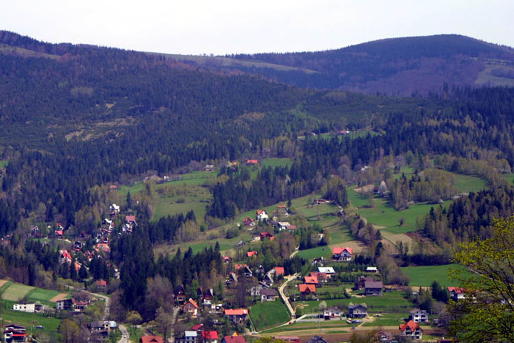 View over Brenna